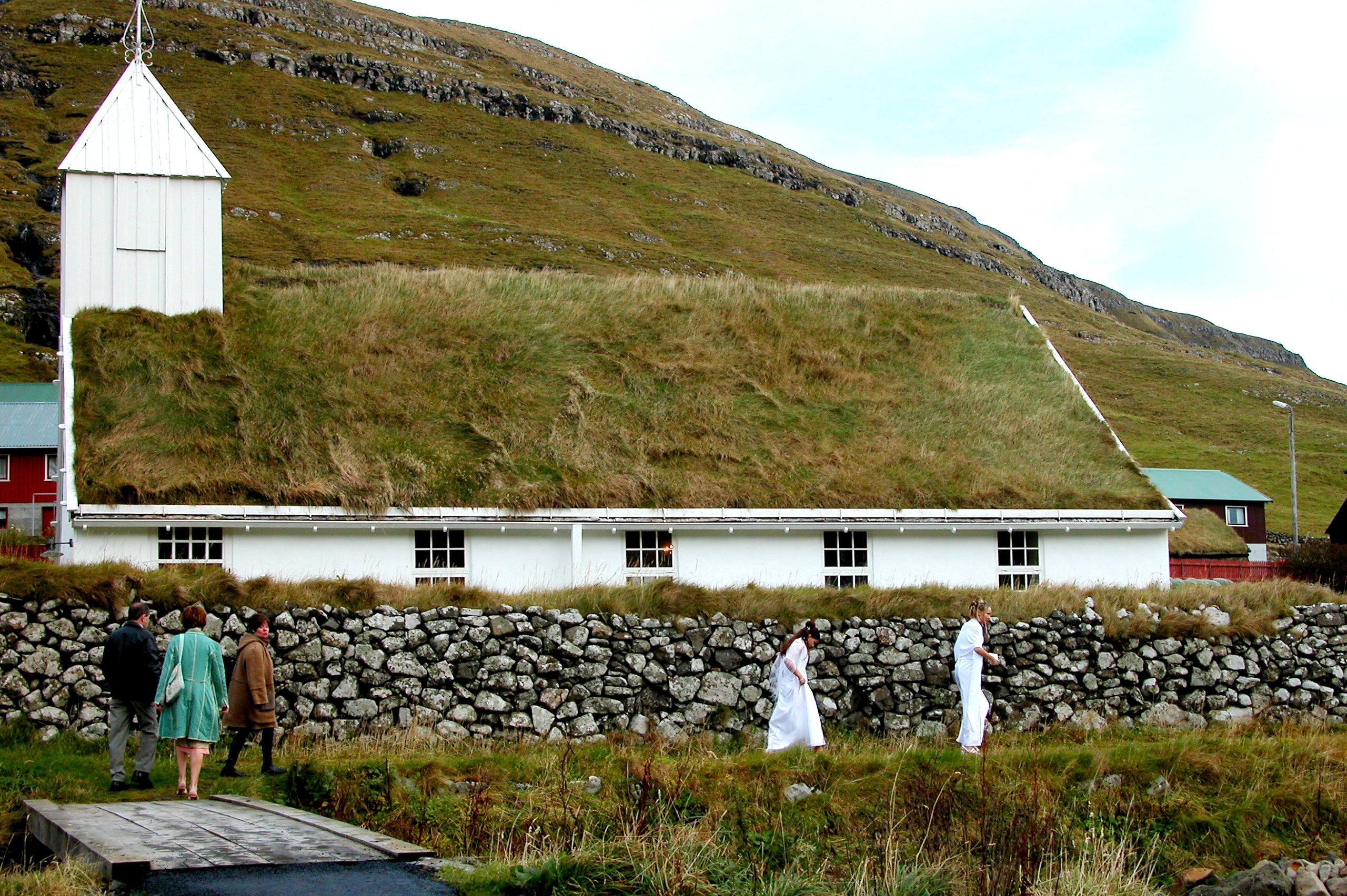 Church of Husavík, Sandoy, Faroe Islands